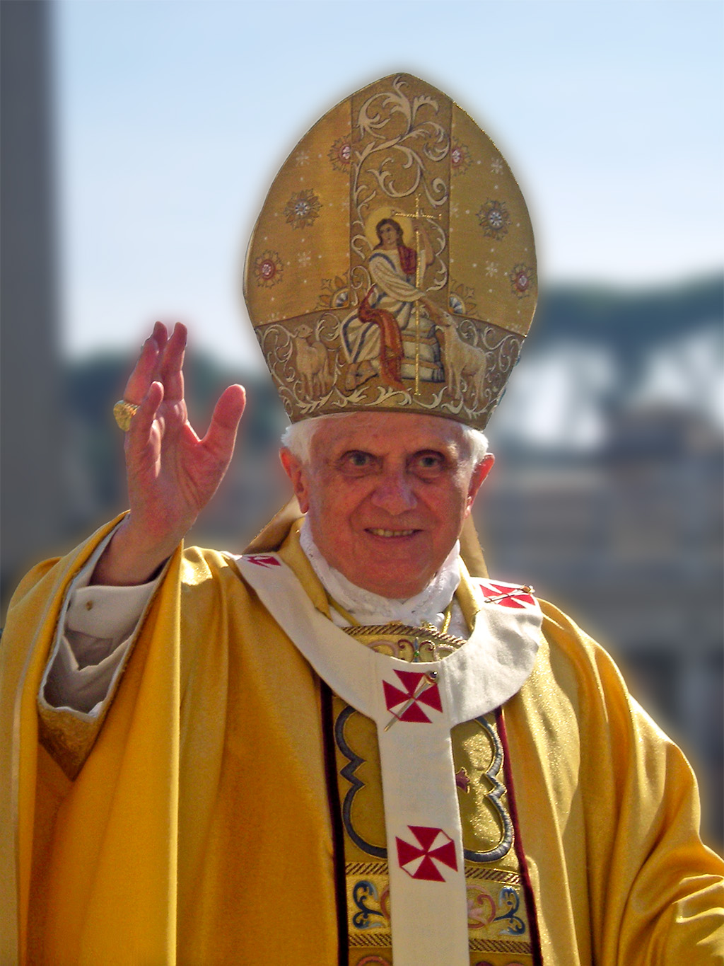 Pope Benedict XVI performing a blessing during the canonization mass in St. Peter's Square in Rome, Italy on Sunday October 12, 2008